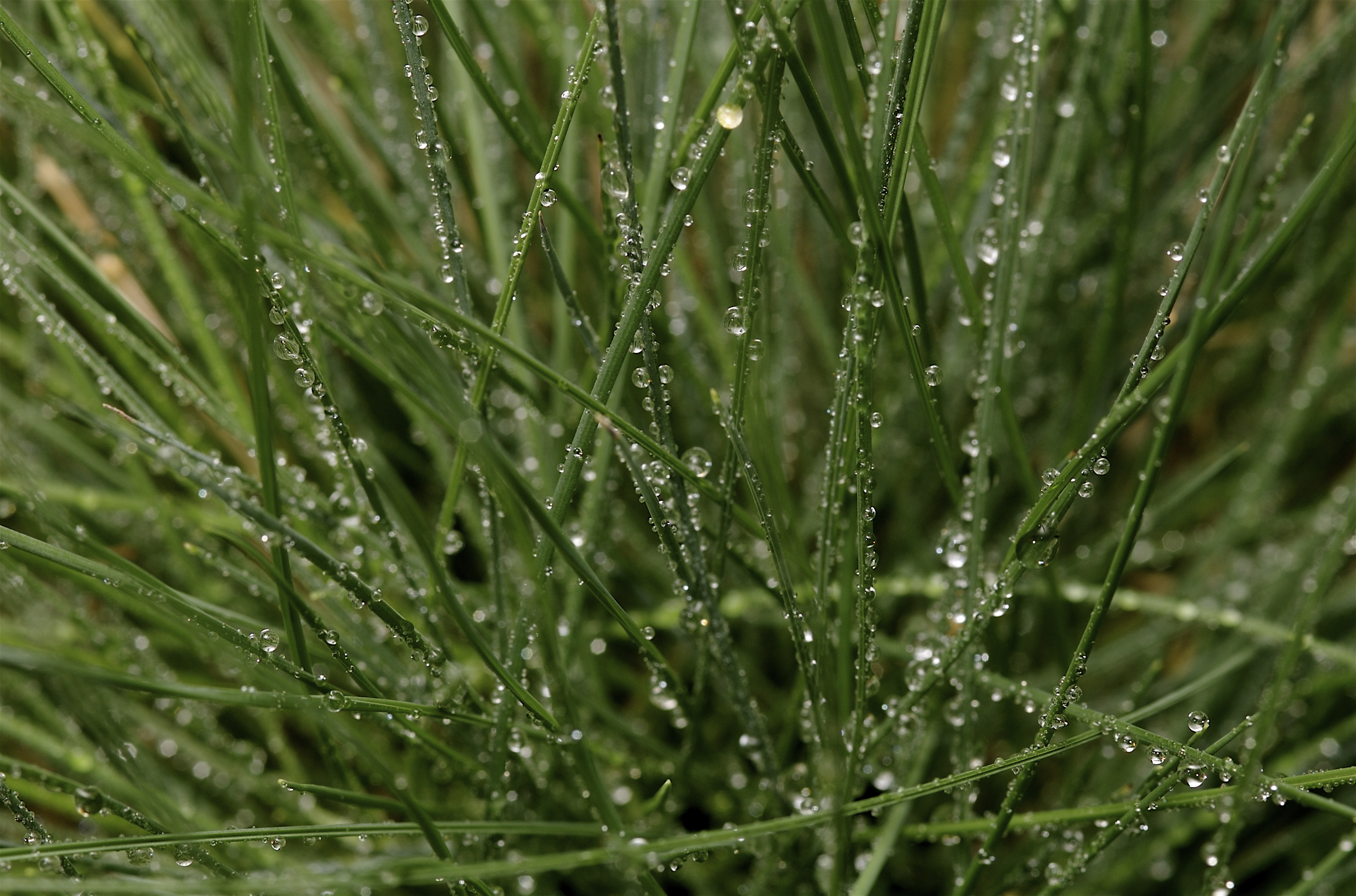 Dew on grass.